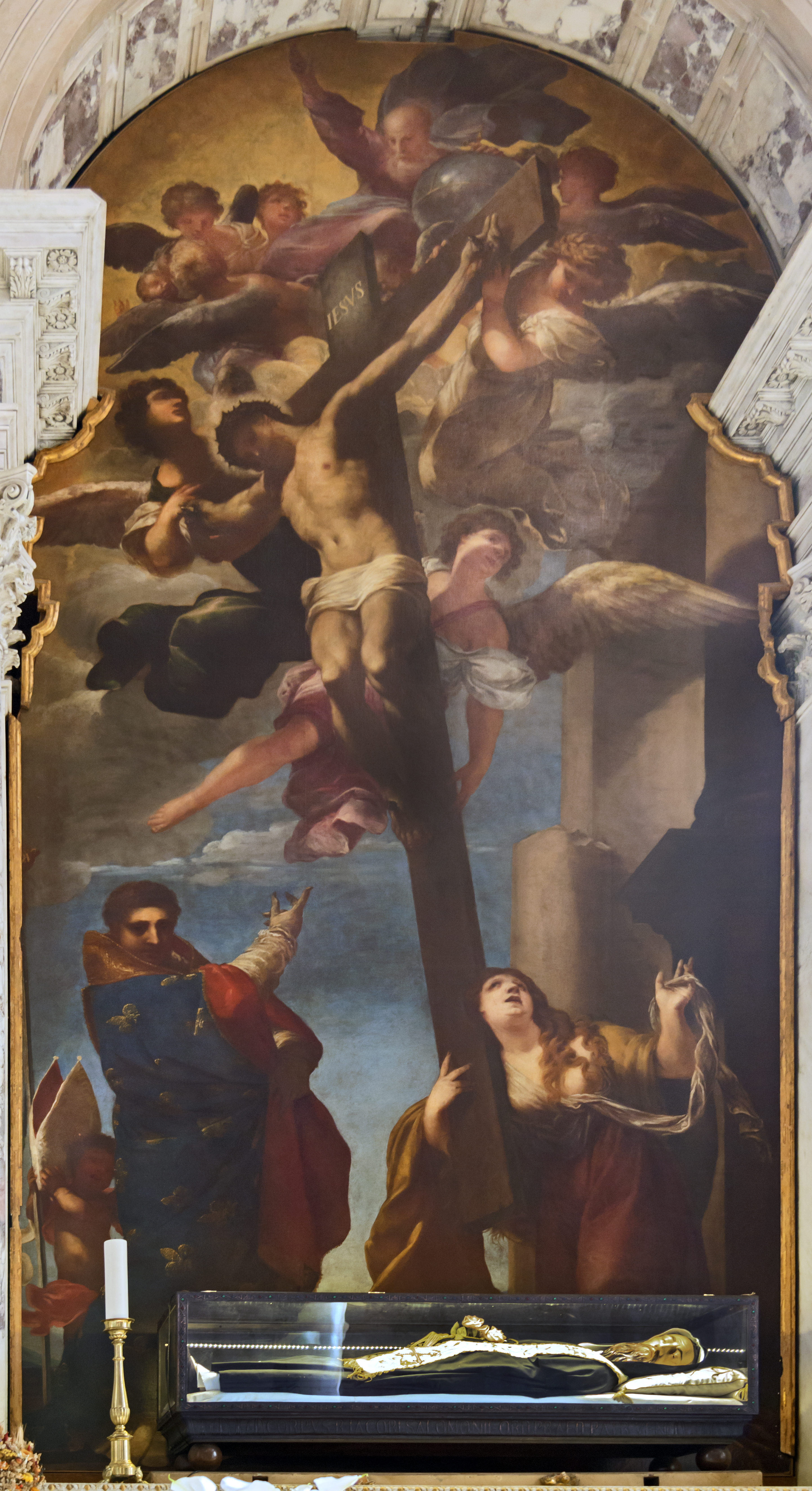 Santi Giovanni e Paolo in Venice - Chapel of the Name of Jesus. Altarpiece painting Mary Magdalene and Saint Louis of Toulouse at the bottom of the crucifix by Pietro Liberi first half-seventeenth century, Oil on canvas. On the altar preserved body of Blessed Giacomo Solomons (Venice, 1231 - Forlì 1314).